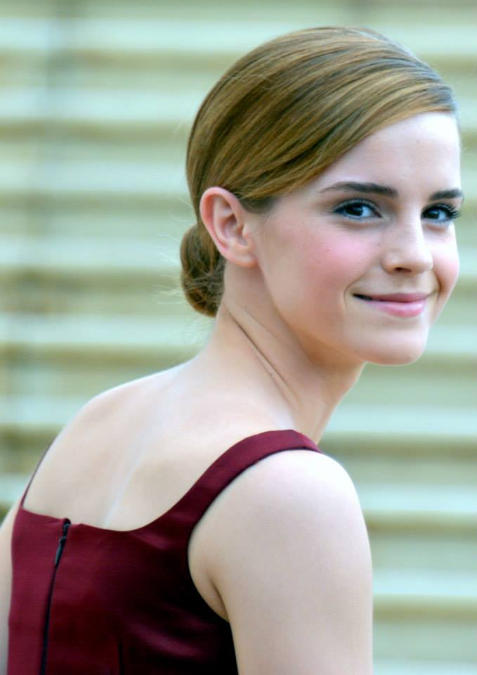 Emma Watson at the Cannes Film Festival